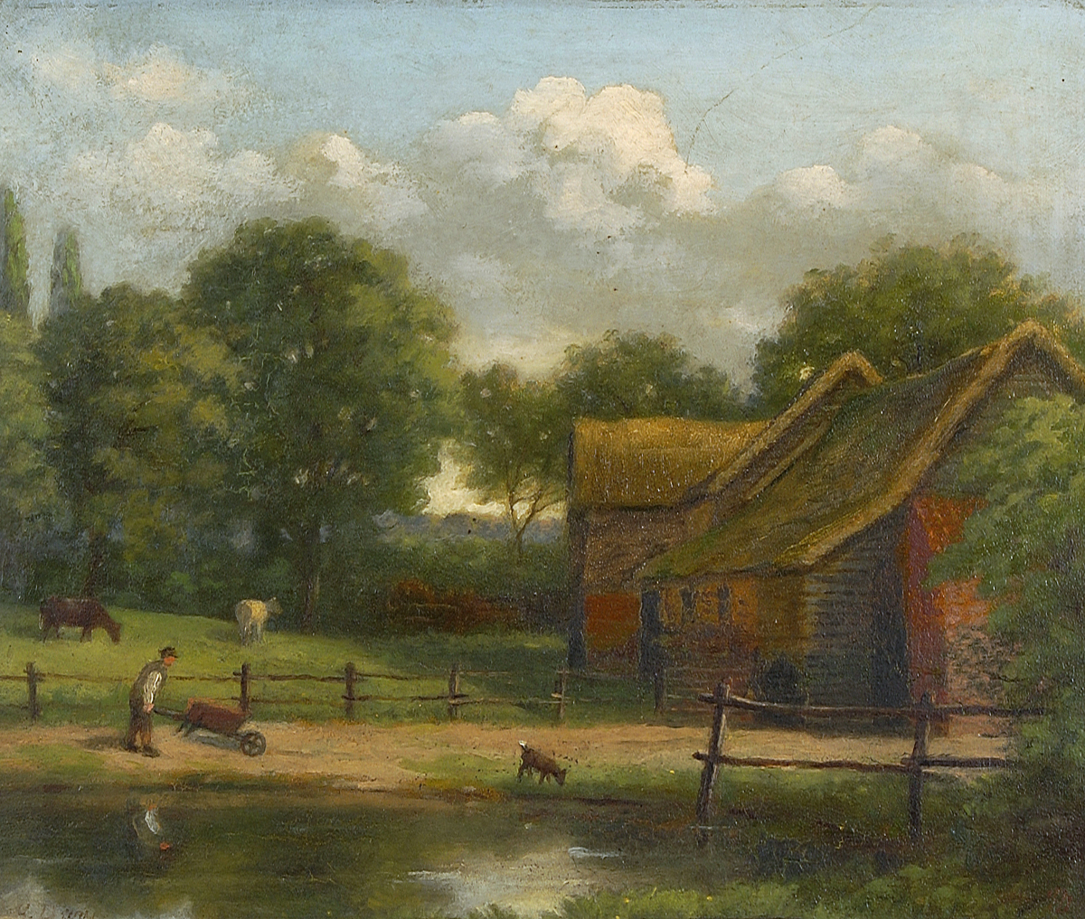 Seventeenth-Century Barn, landscape painting.